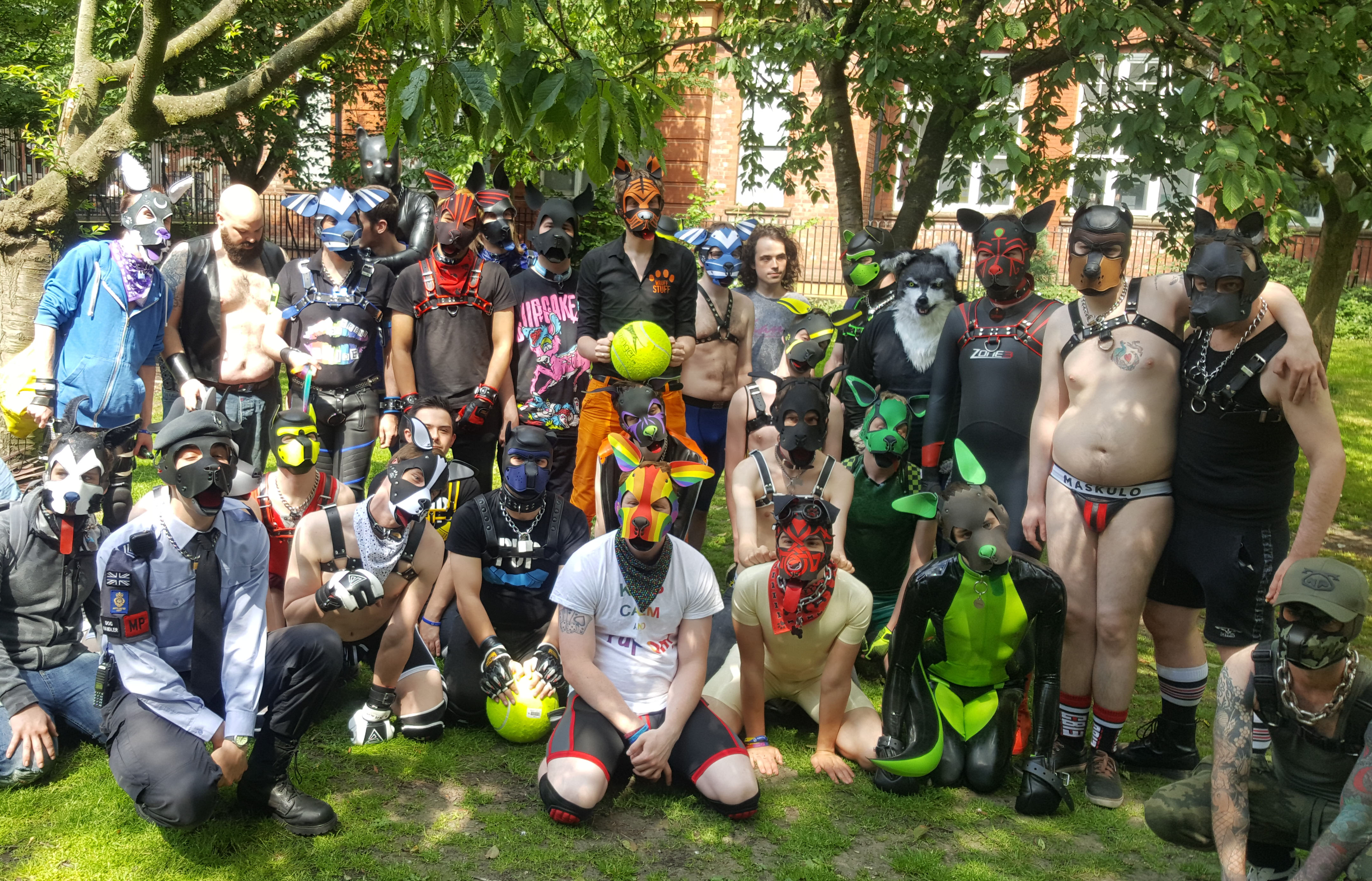 Human pups at Kennel Klub (social) pup event Manchester UK